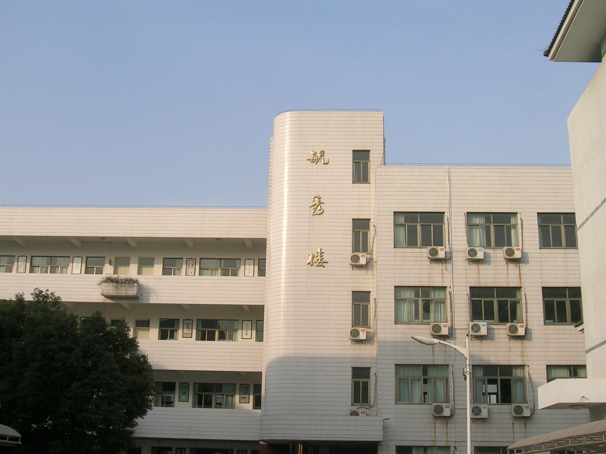 yuxiu building